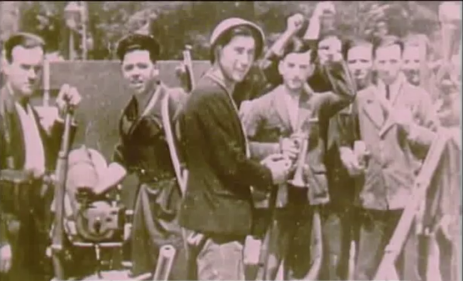 Ukrainian interbrigade company Taras Shevchenko